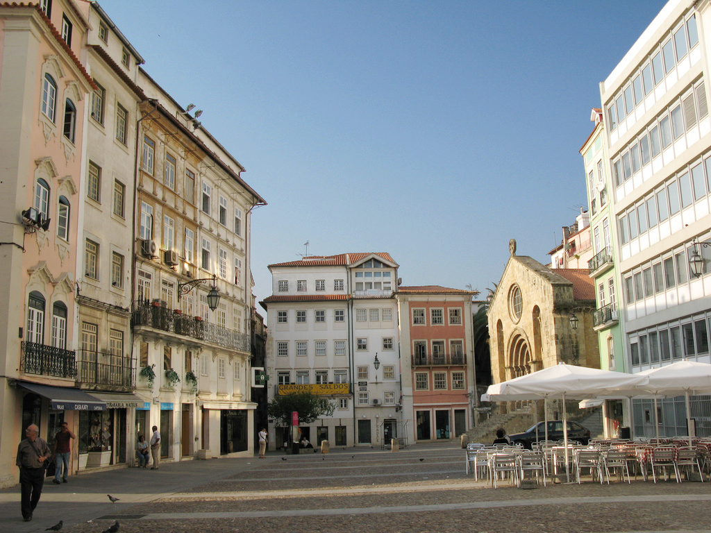 Praça do Comércio (Commerce Square) in Coimbra, Portugal